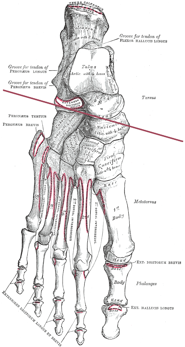 Bones of the right foot, dorsal surface.